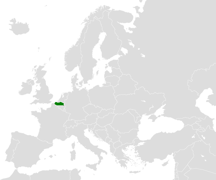 Based on Image:Blank map europe.png Own work, all rights released